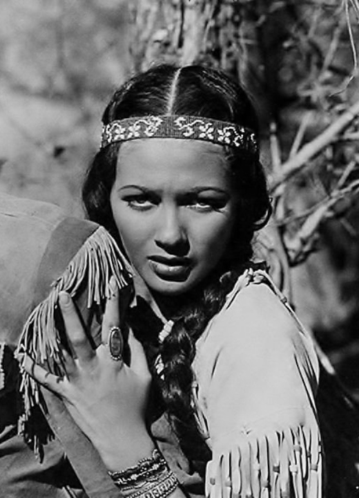 Cropped photo of Canadian actress Yvonne De Carlo playing Wah-Tah, her first credited role in a feature film, in Deerslayer (1943).